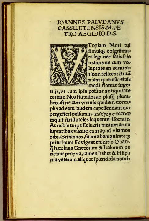 This is the first page of Jean Demarais' letter to Pierre Gilles, as it was printed in Thomas More's Utopia 1517 edition